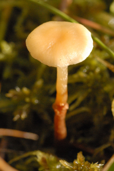 Galerina sphagnorum from Commanster, Belgium. If you think this is a different taxon, please contact James Lindsey.